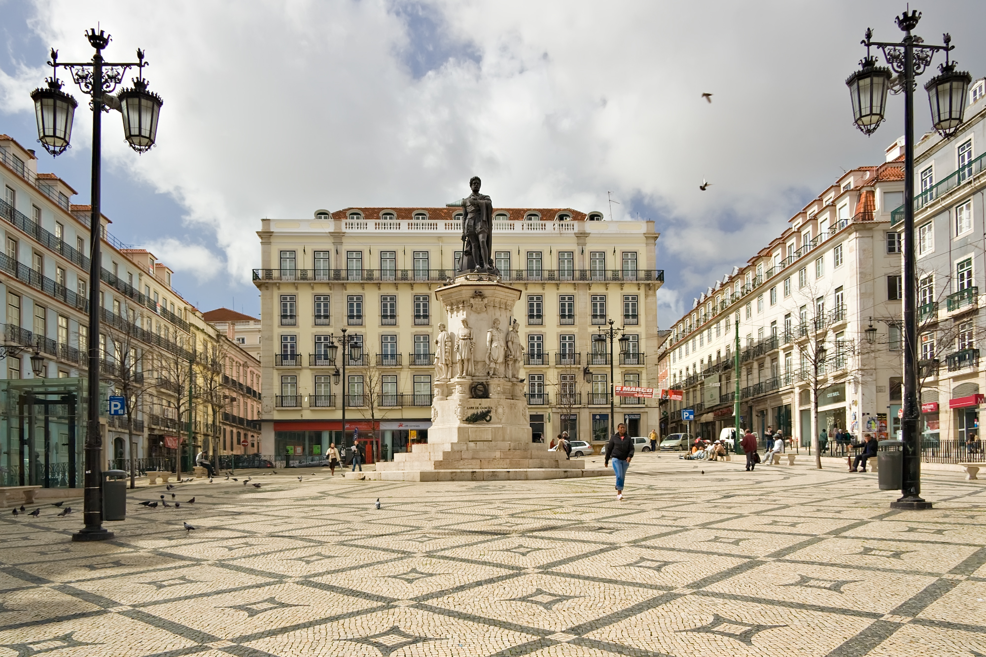 Camoens Square in Lisbon, Portugal